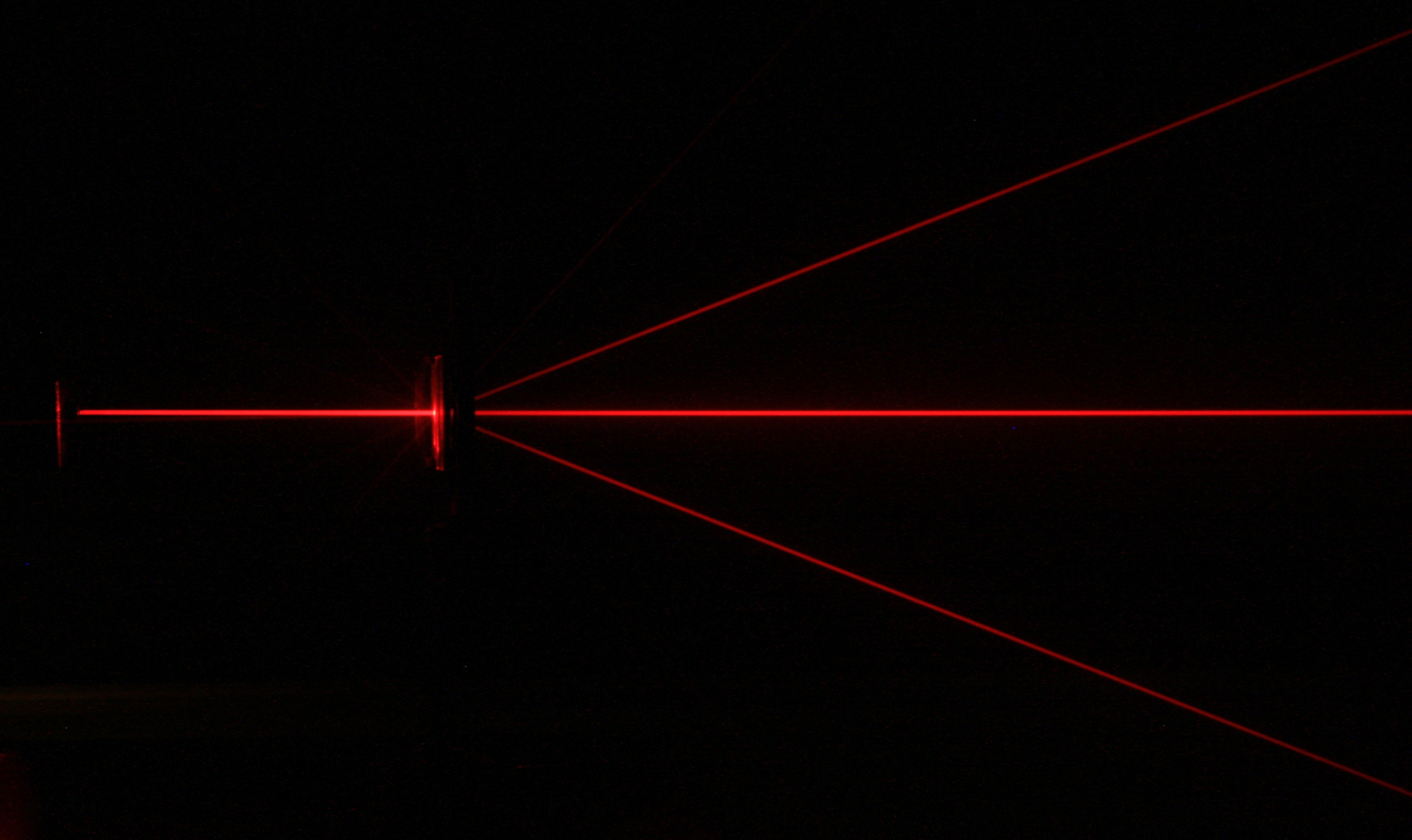 Diffraction of a red Laser beam with a diffraction grating